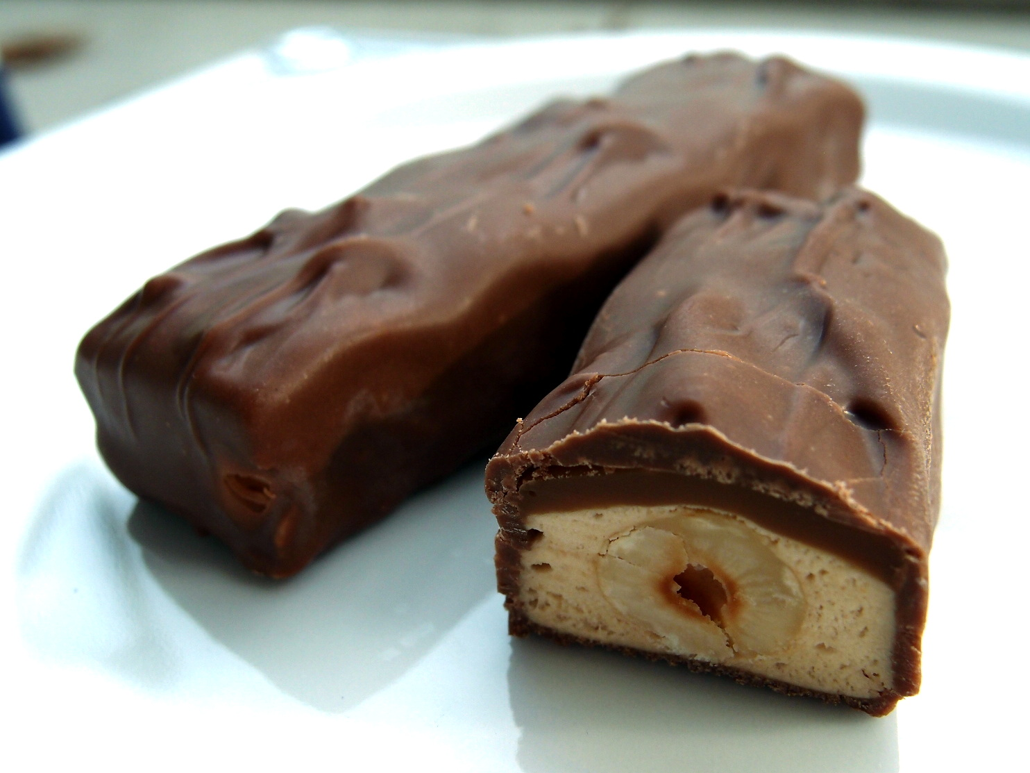 42g “Nuts” chocolate bar, one whole and one cut open. A hazelnut is visible in the cut one.